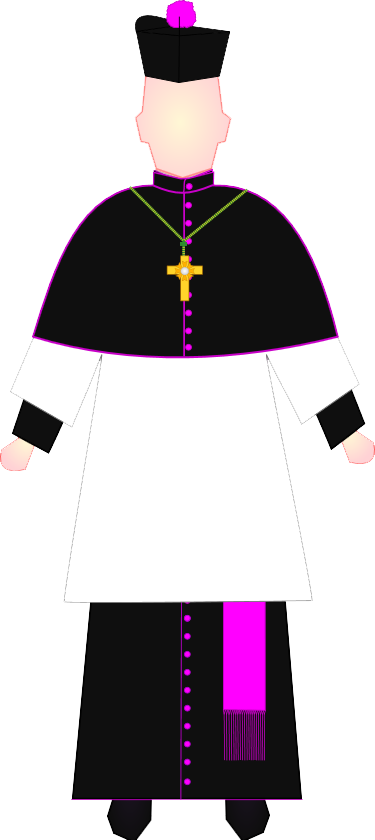 Polish choir dress. Generic choir dress, as seen in Polish Churches